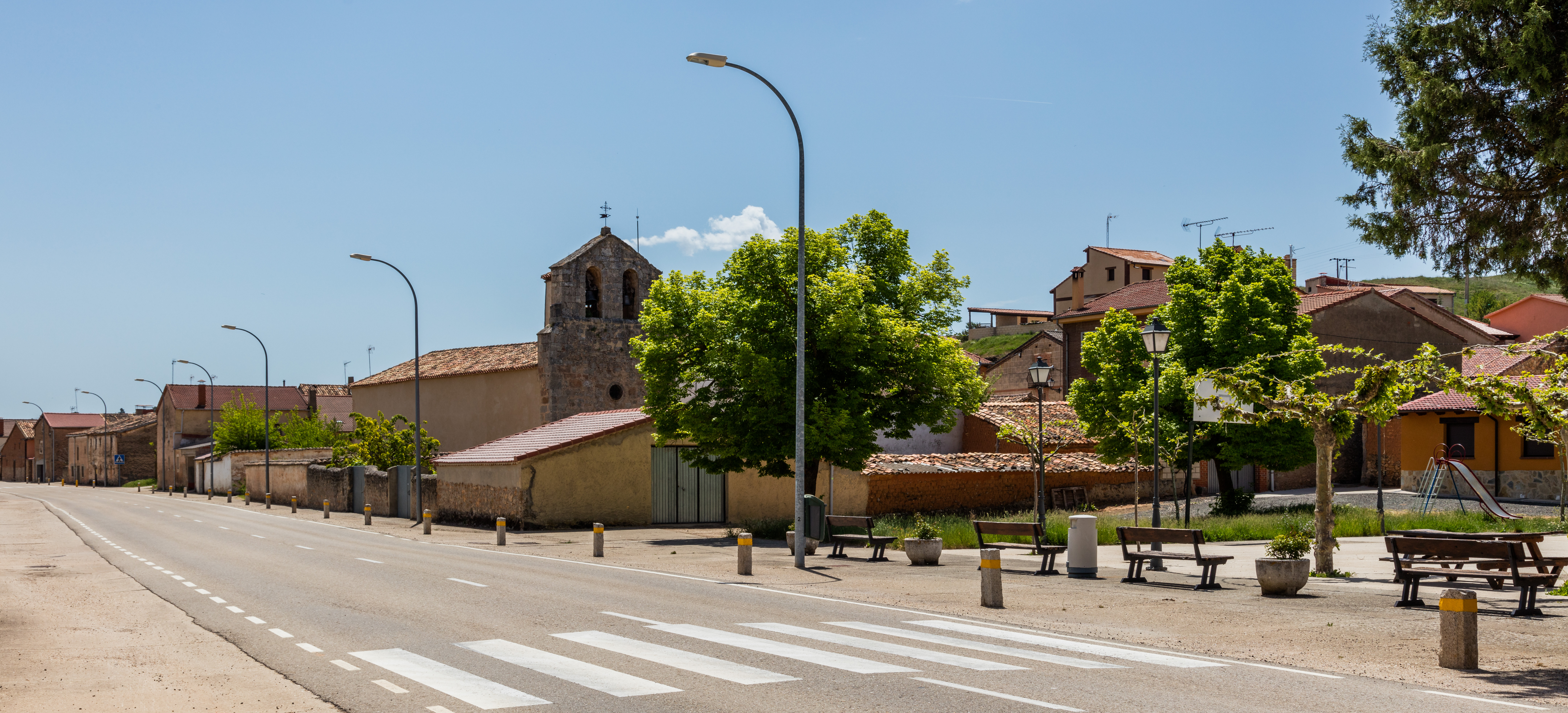 Lodares de Osma, Soria, Spain